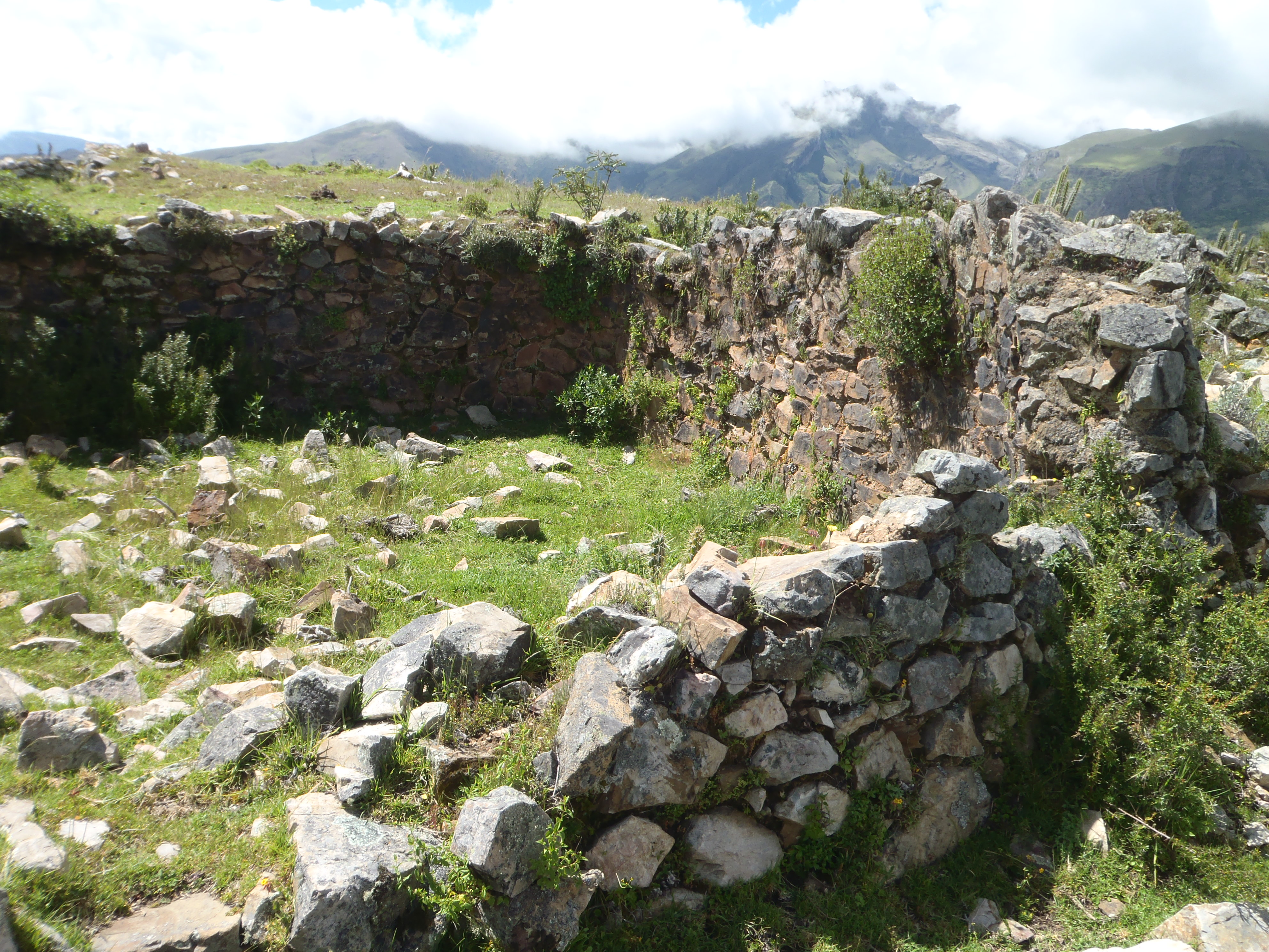 Yanaca is a pre-inca ruins group situated in Peru, Apurimac region, Yanaca district. Tunay Kassa is one of these ancient village, situated at 4 km from Yanaca village. This picture represents a Tunay’house.